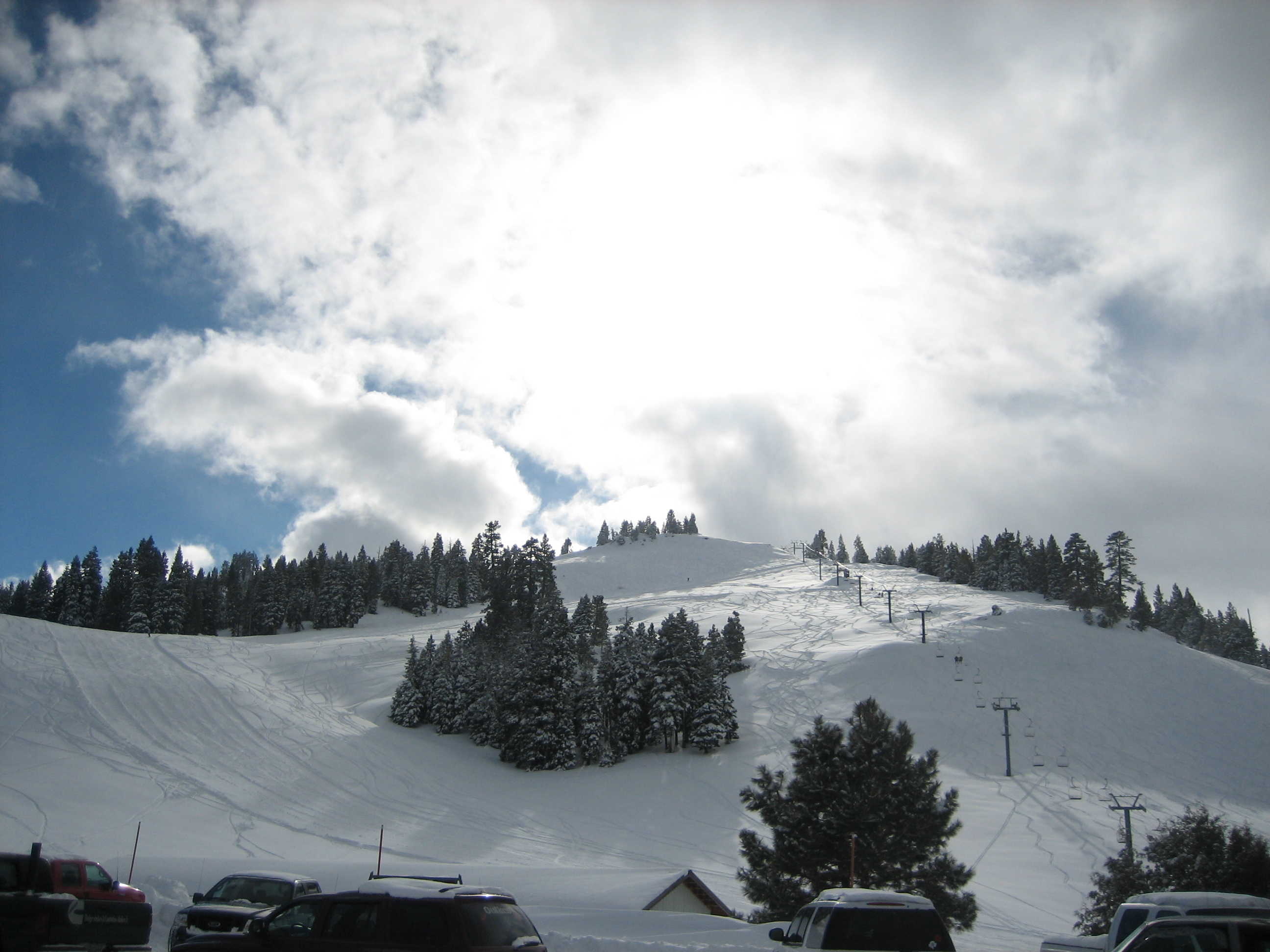 Photo of Warner Canyon Ski Area